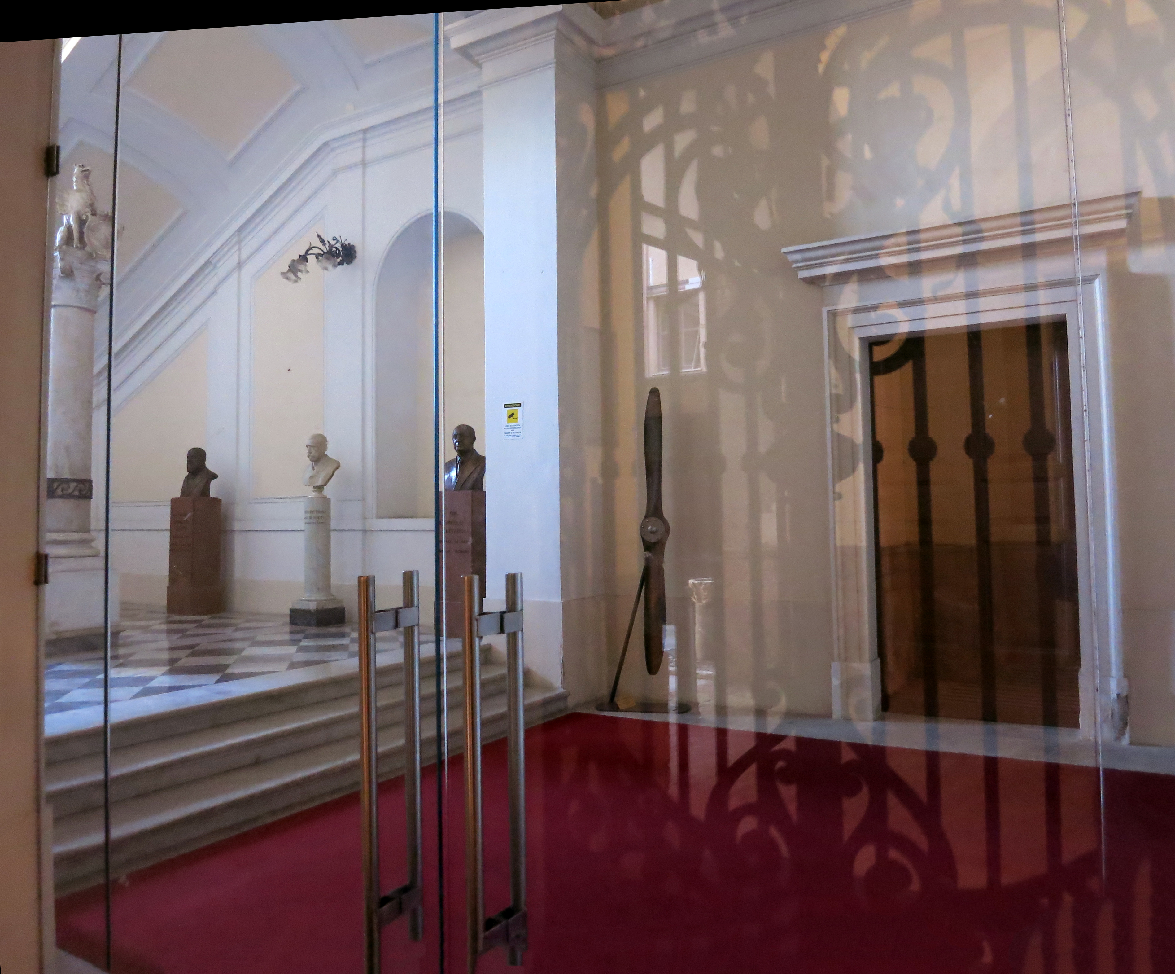 The atrium on the main entrance of the Municipal Palace of Rieti (central Italy), where the staircase leading to the upper floors is located